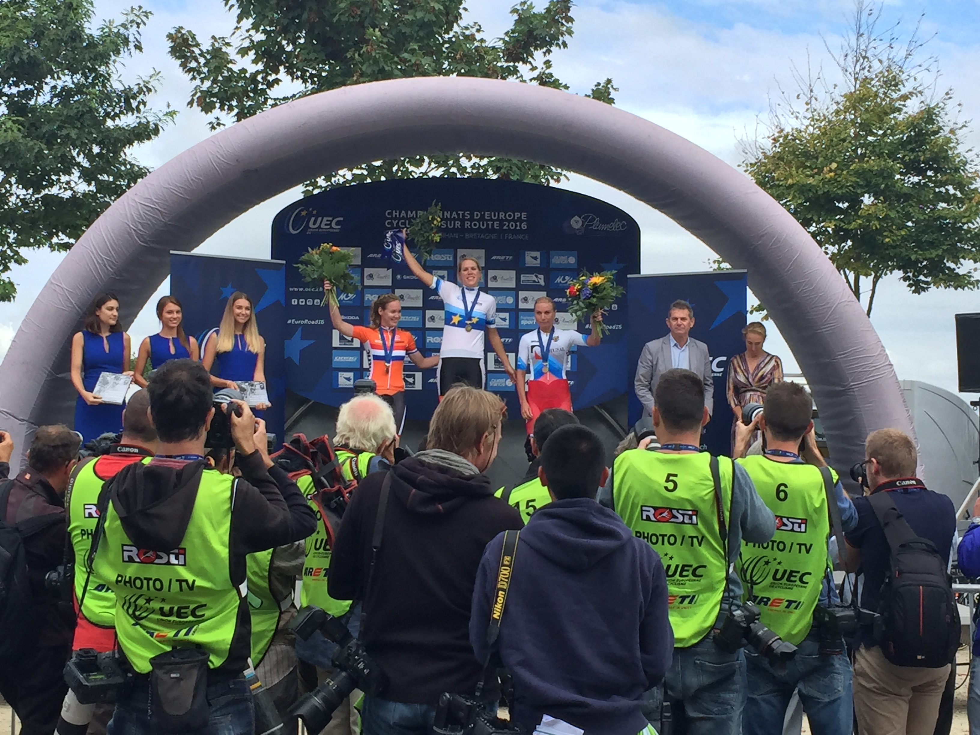 2016 European Road Championships